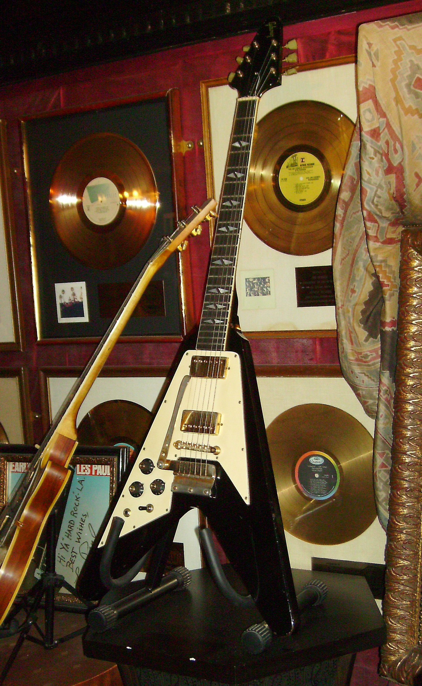 Jimi Hendrix's custom made Gibson Flying V guitar, which he called "Flying Angel" Currently in the Hard Rock Cafe Museum, London, England. Serial number 849476 manufactured specially for Jimi in 1969, this guitar probably left the factory in 1970. Jimi was playing this specific V during the Isle of Wight concert. All hardware is gold. The vibrato is a typical flatmount base (no difference left or right) with a special string anchor bit and lever (made with 3 different holes for longitudinal adjustment. This was the first time Gibson inlayed a pearl logo in a Flying V. This feature was subsequently used on the 89/90 V90's, the Golden Eagle, the Hendrix signature in 91 and the Centennial in 94. The split diamond inlay was requested specially by Jimi (it was a new design at the time) made to represent native indians arrow heads. This inlay has been used since on the 89/90 V90's, the Golden Eagle, the Hendrix signature in 91 and the Centennial in 94. The tuners strangely enough are quite odd : they are Kluson built "Gibson Deluxe" double line tuners but single line tulip buttons which is unusual since during that period and up to 1971 at least, the perloid buttons had 2 rings.